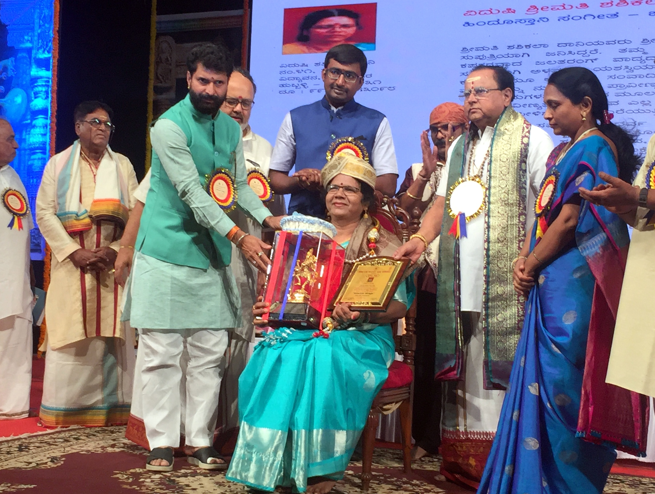 Vidushi Shashikala Dani honoured with prestigious 'Karnataka Kalashri' award by Government Of Karnataka